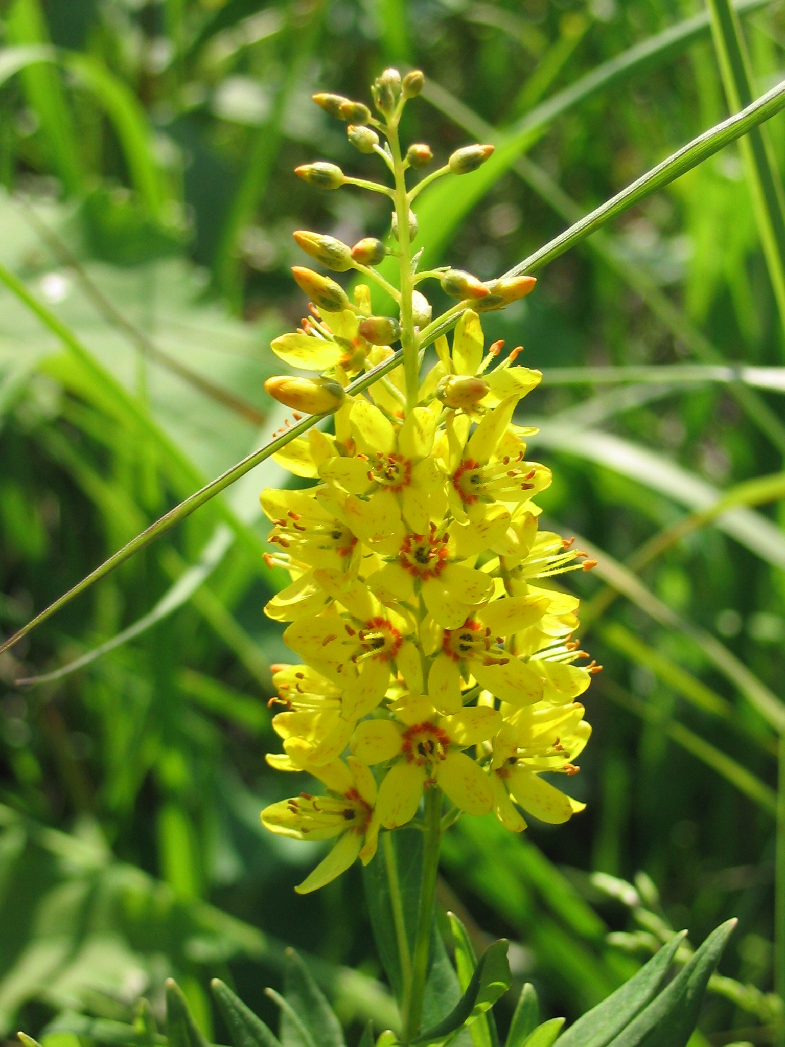 Lysimachia_terrestris_3-eheep